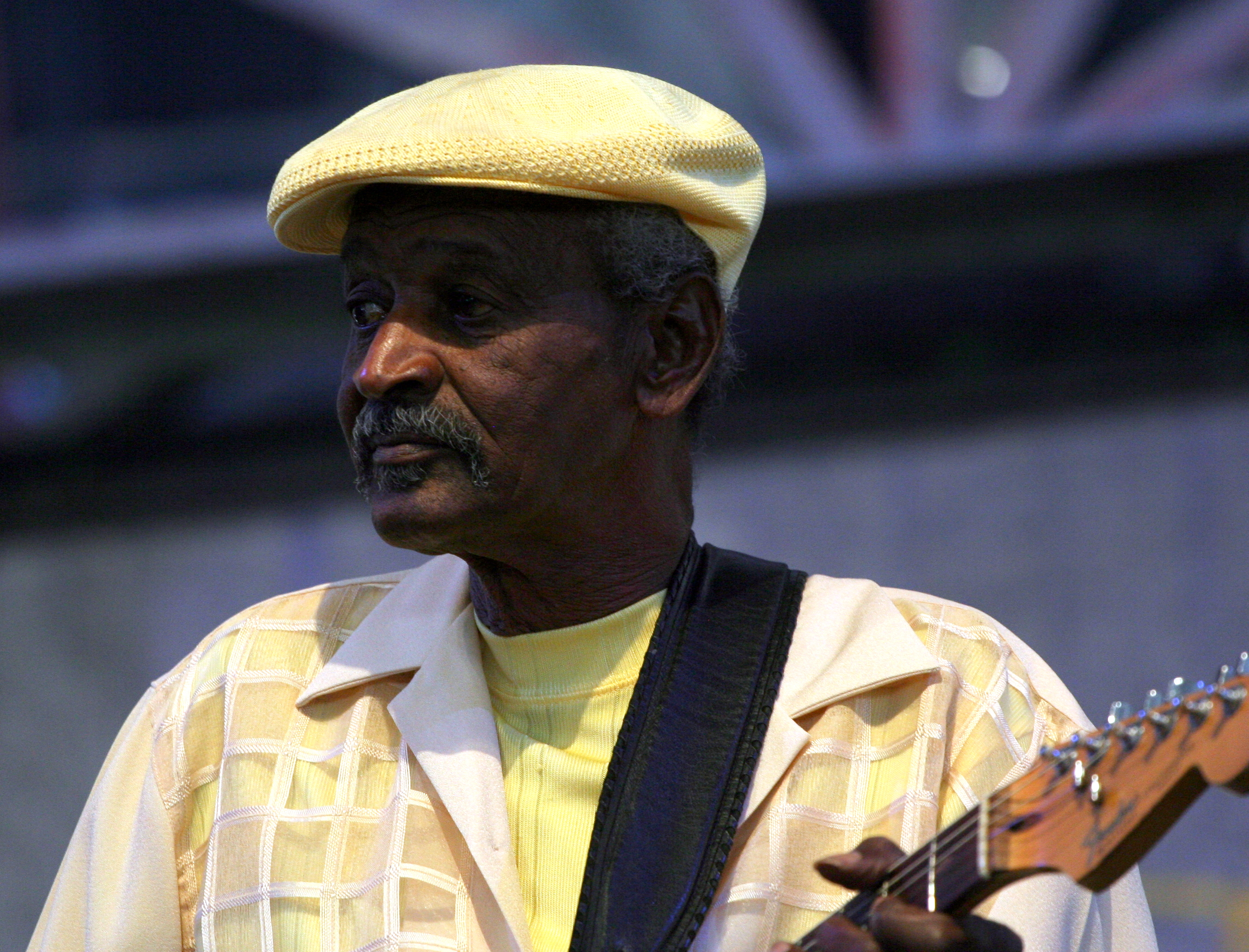 Blues Tent Thursday, April 30